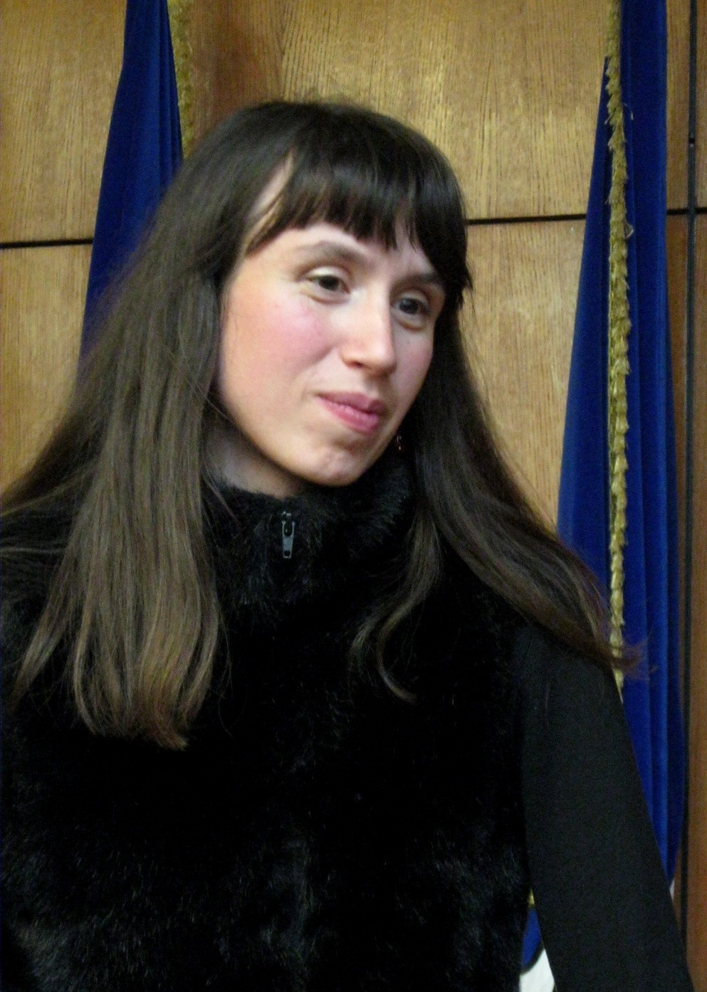 Tatiana Chornovil (2012)